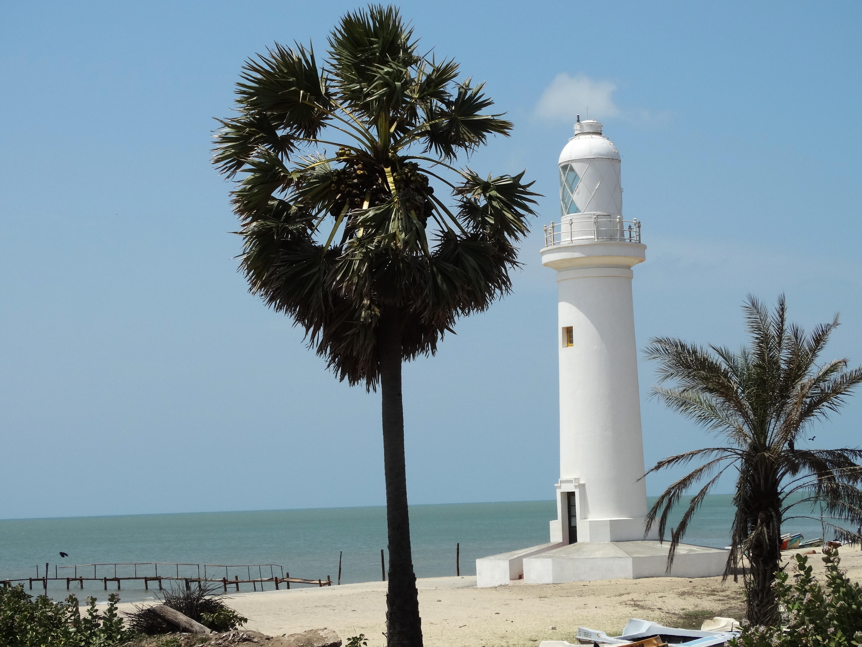 Lighthouse Looking Out on Adam's Bridge - Talaimannar - Sri Lanka